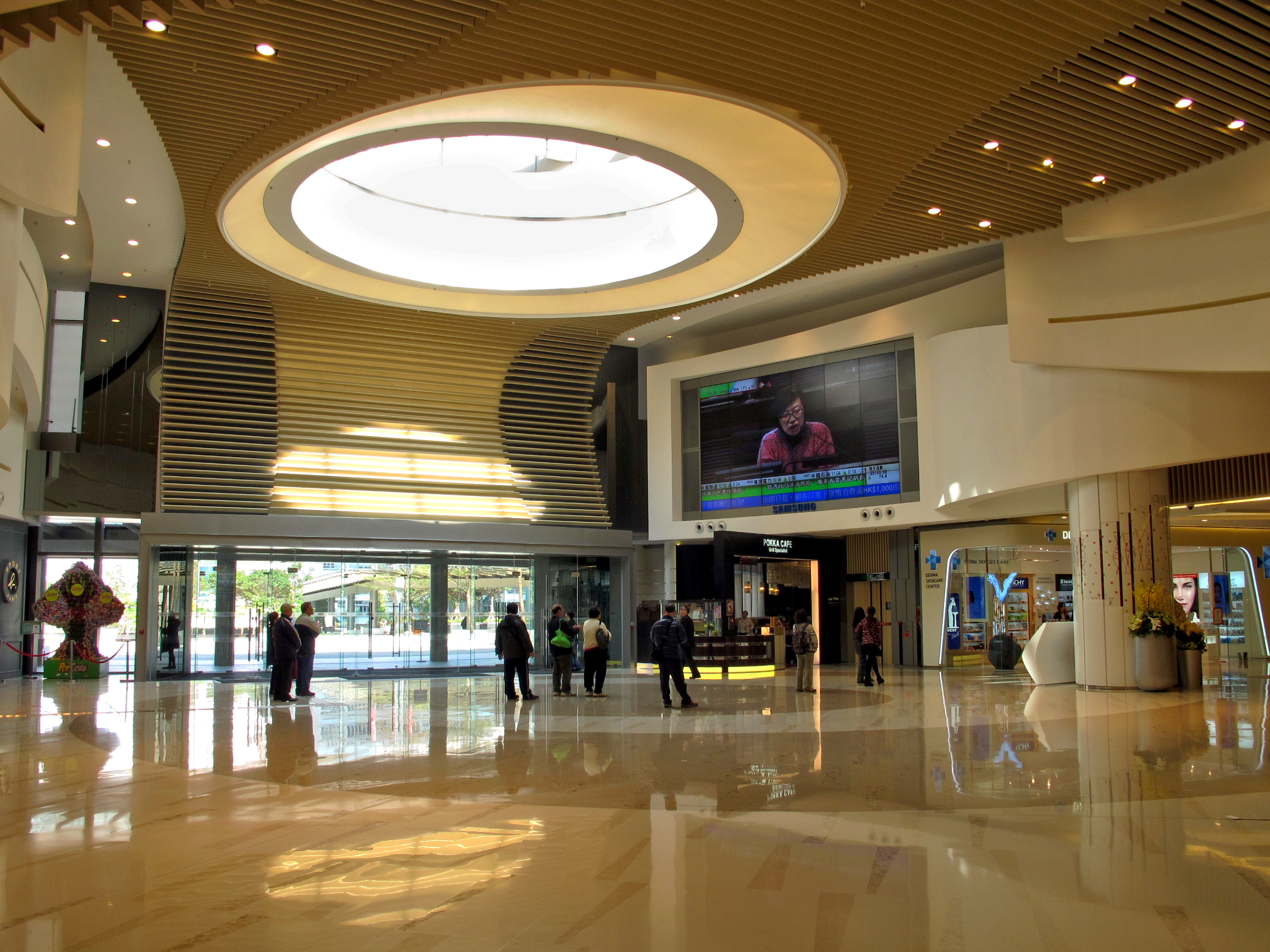 PopCorn 商場中庭